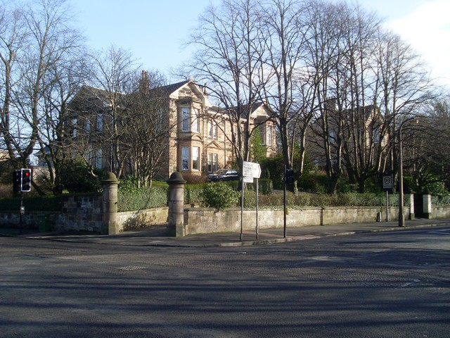 Houses on Nithsdale Road A rather plush section of the road in Pollokshields.